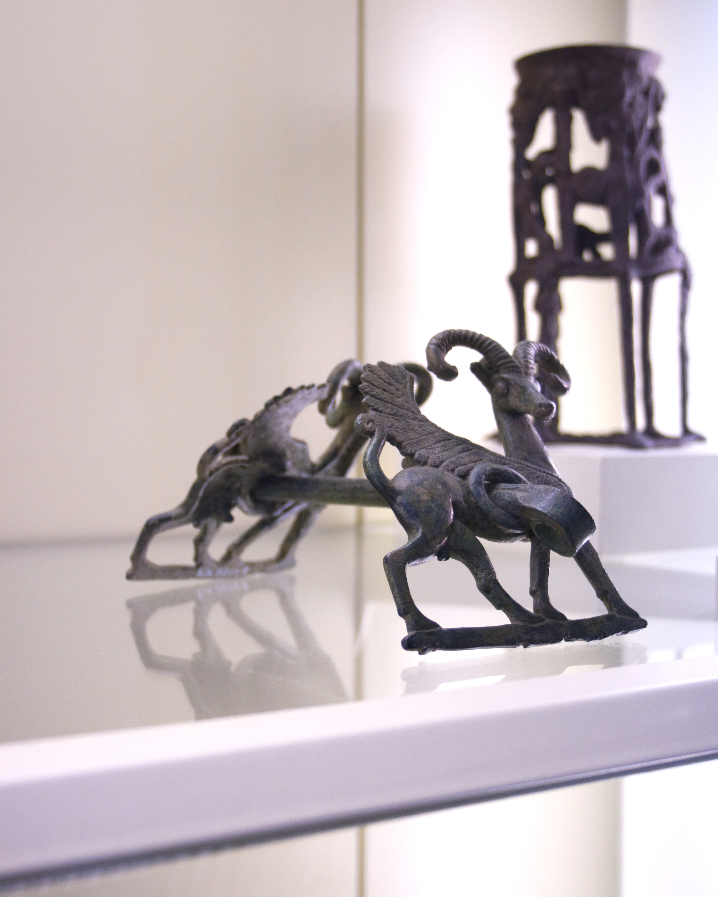 Luristan horse bit, in the Pergamon Museum